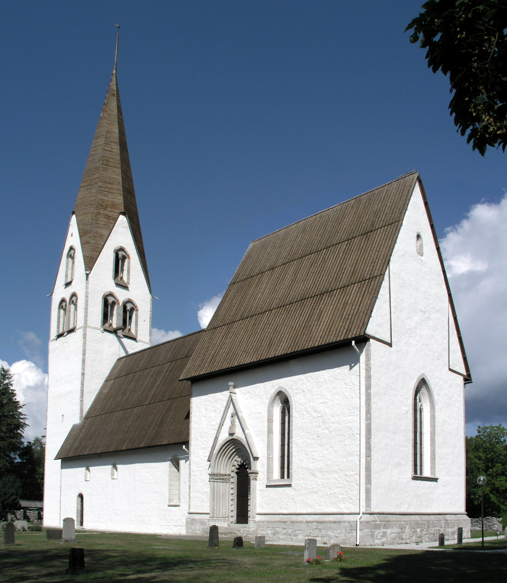 Garda (Garde) kyrka / Garda (Garde) church is situated at Garde, Gotland, Sweden